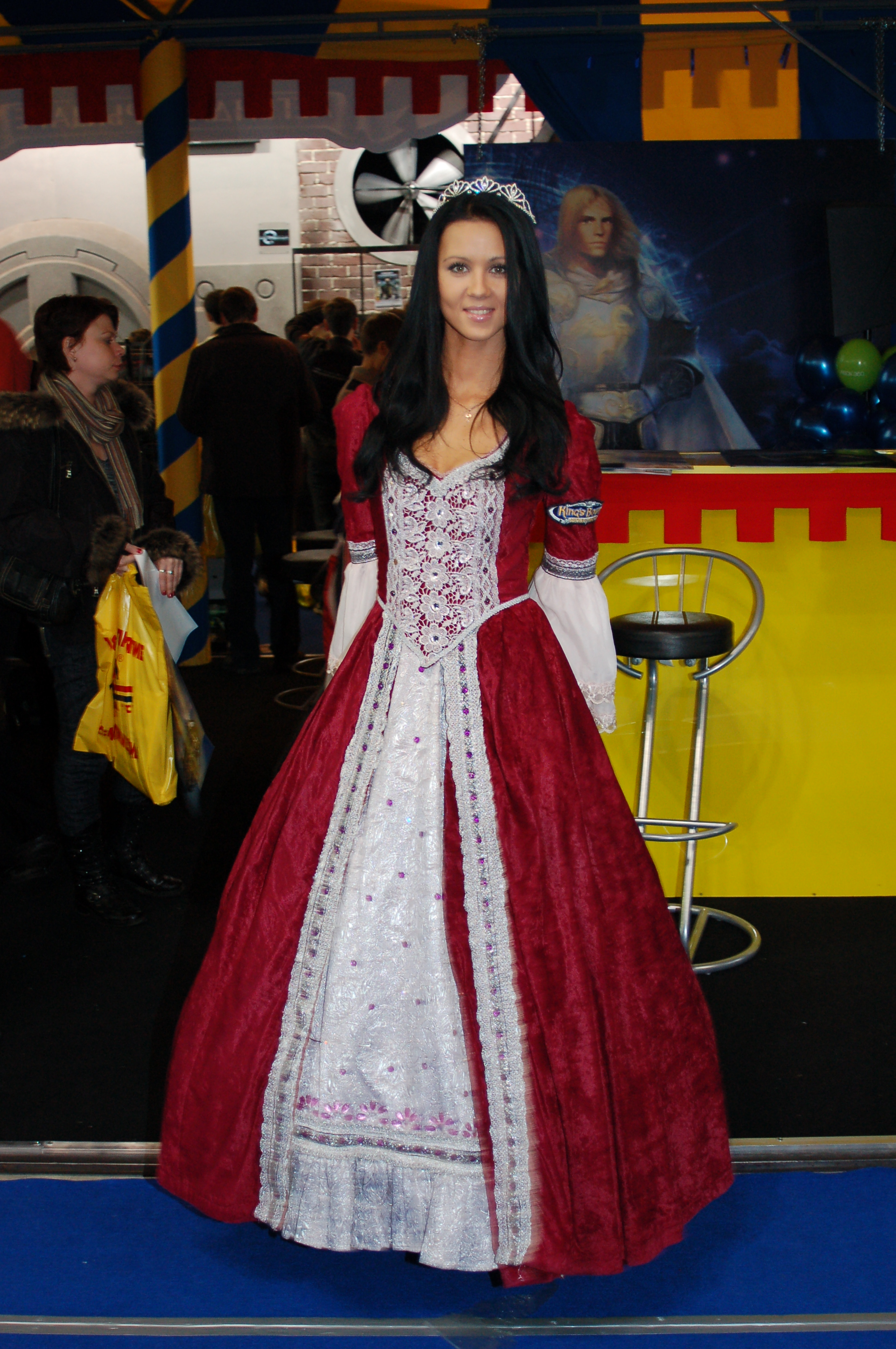 King's Bounty girl